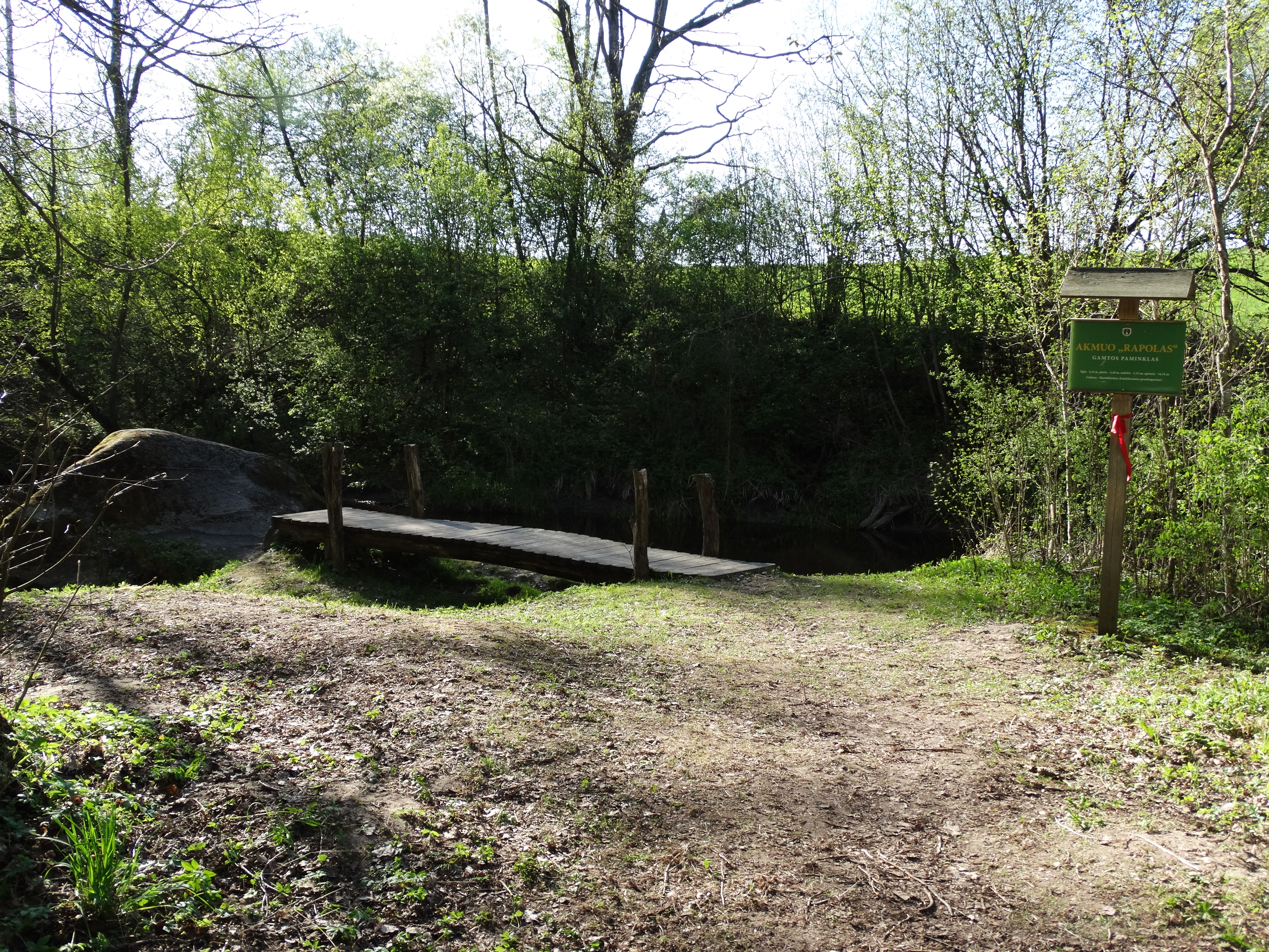 Stone Rapolas, Panevėžys District, Lithuania